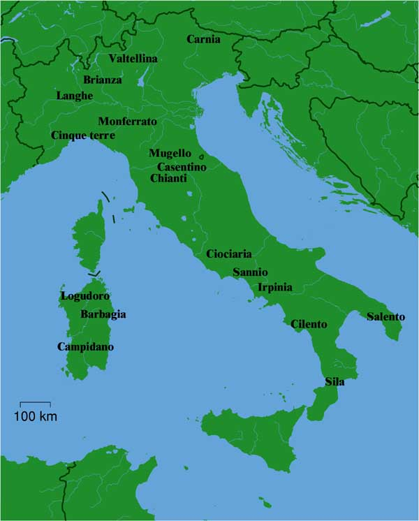 This is a modified version of a map , File:Venezia dot.png on Wikimedia Commons.